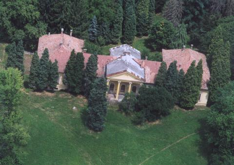 Nagyatád, Hungary, aerialphotography (Mándl Mansion)